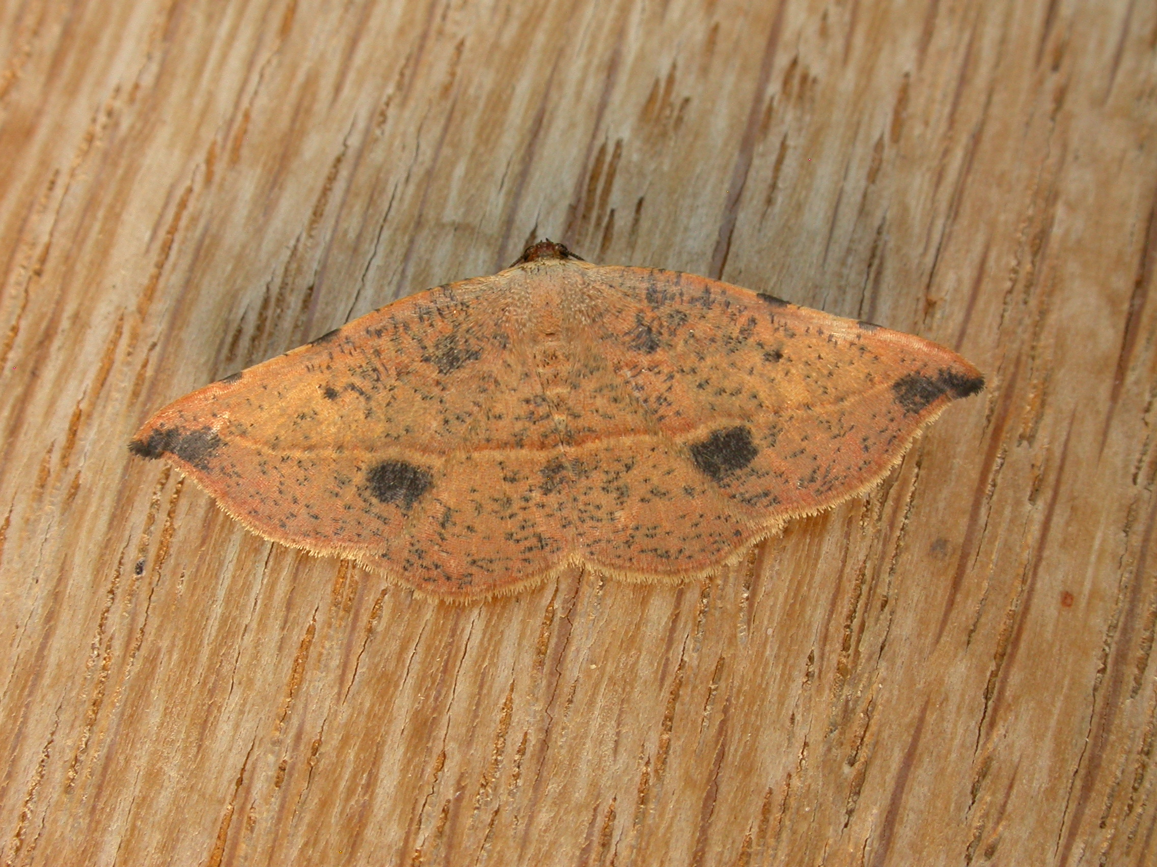 Onycodes traumataria Guenée, 1857, to MV light, Blackheath, NSW, 25/26 January 2011